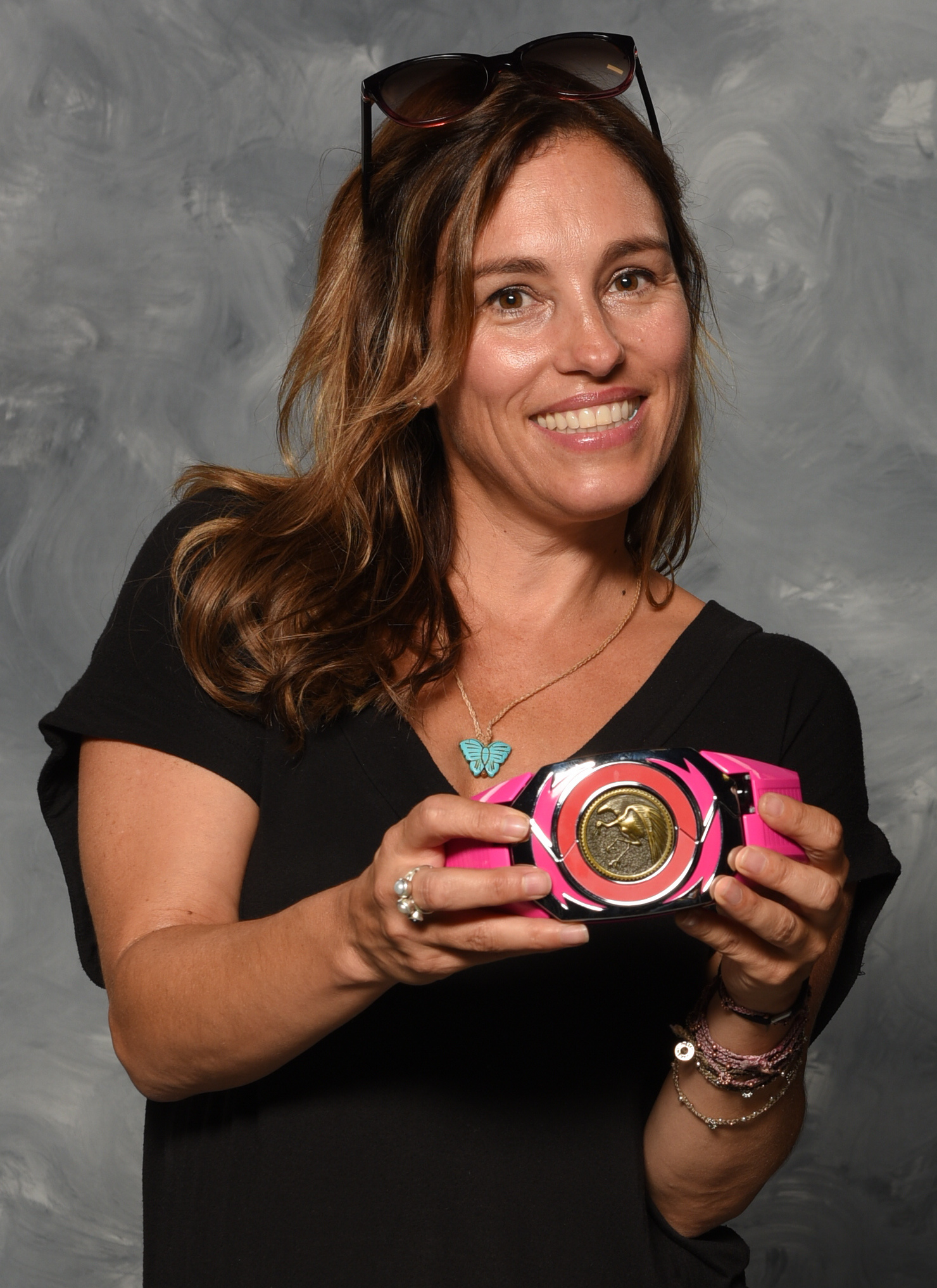 Amy Jo Johnson at the Florida Supercon in 2017